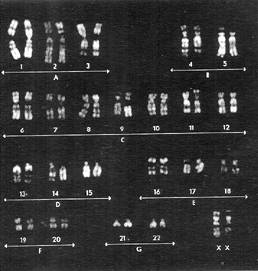 Karyotype with isochromosome X from a Turner woman, 70% of whose cells lack an X (45,X), while 30% lack the short arm of X and have double long arms (46,X i (Xq))